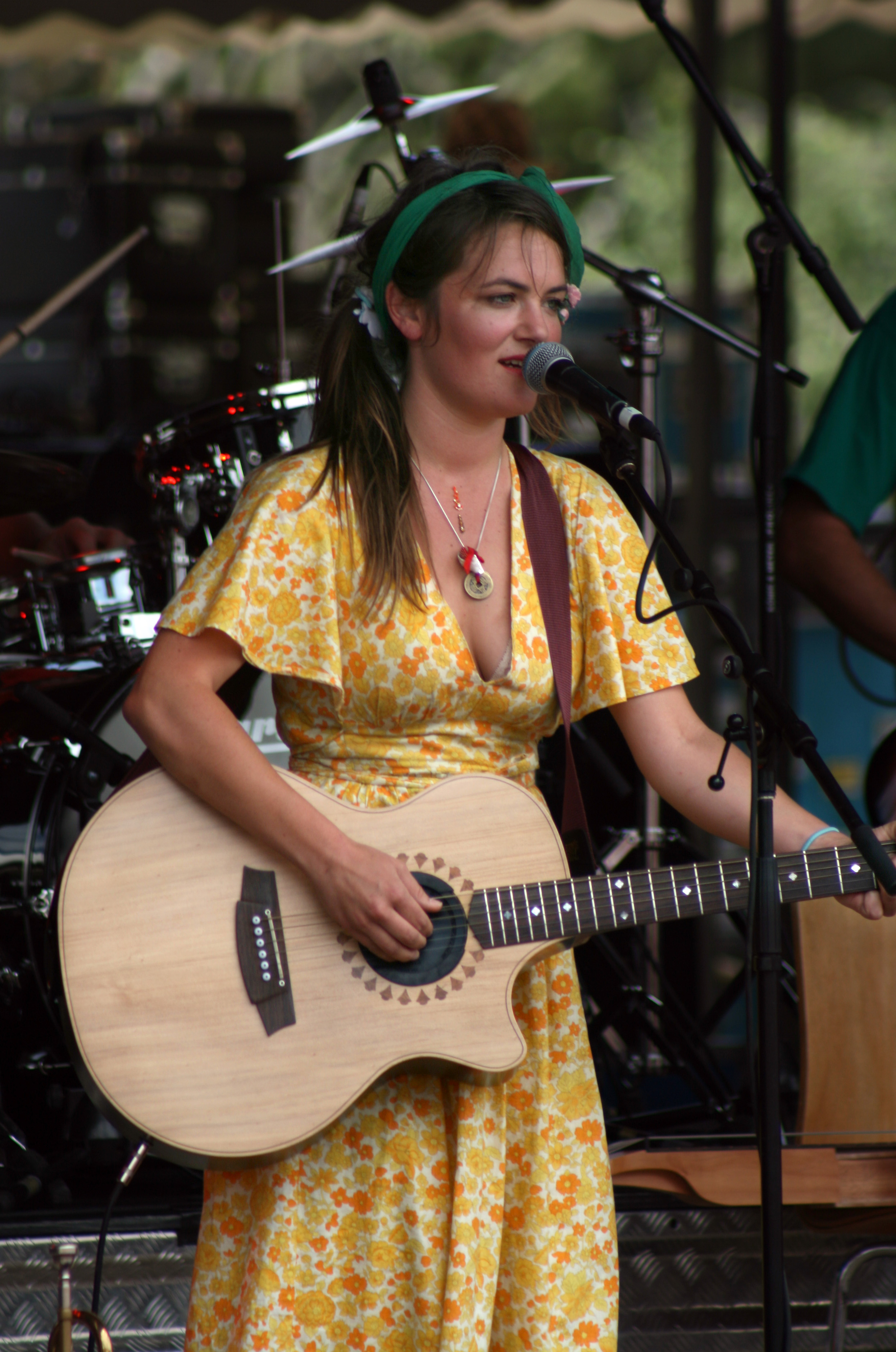 Julia Stone, from the duo Angus & Julia Stone, at Falls Festival in 2007.